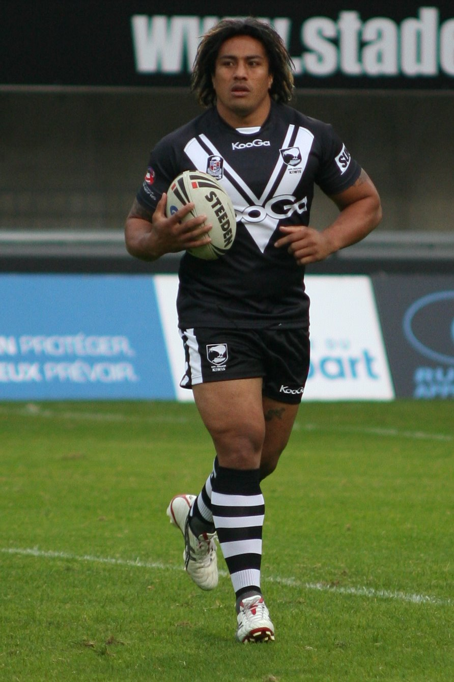 Fuifui Moimoi, New Zealand-Tongan rugby league player.